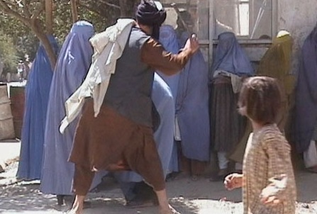 This photo is caught from video that was recorded by RAWA in Kabul using a hidden camera. It shows two Taliban from department of Amr bil Ma-roof (Promotion of Virtue and Prevention of Vice, Taliban religious police) beating a woman in public because she has dared to remove her burqa in public.